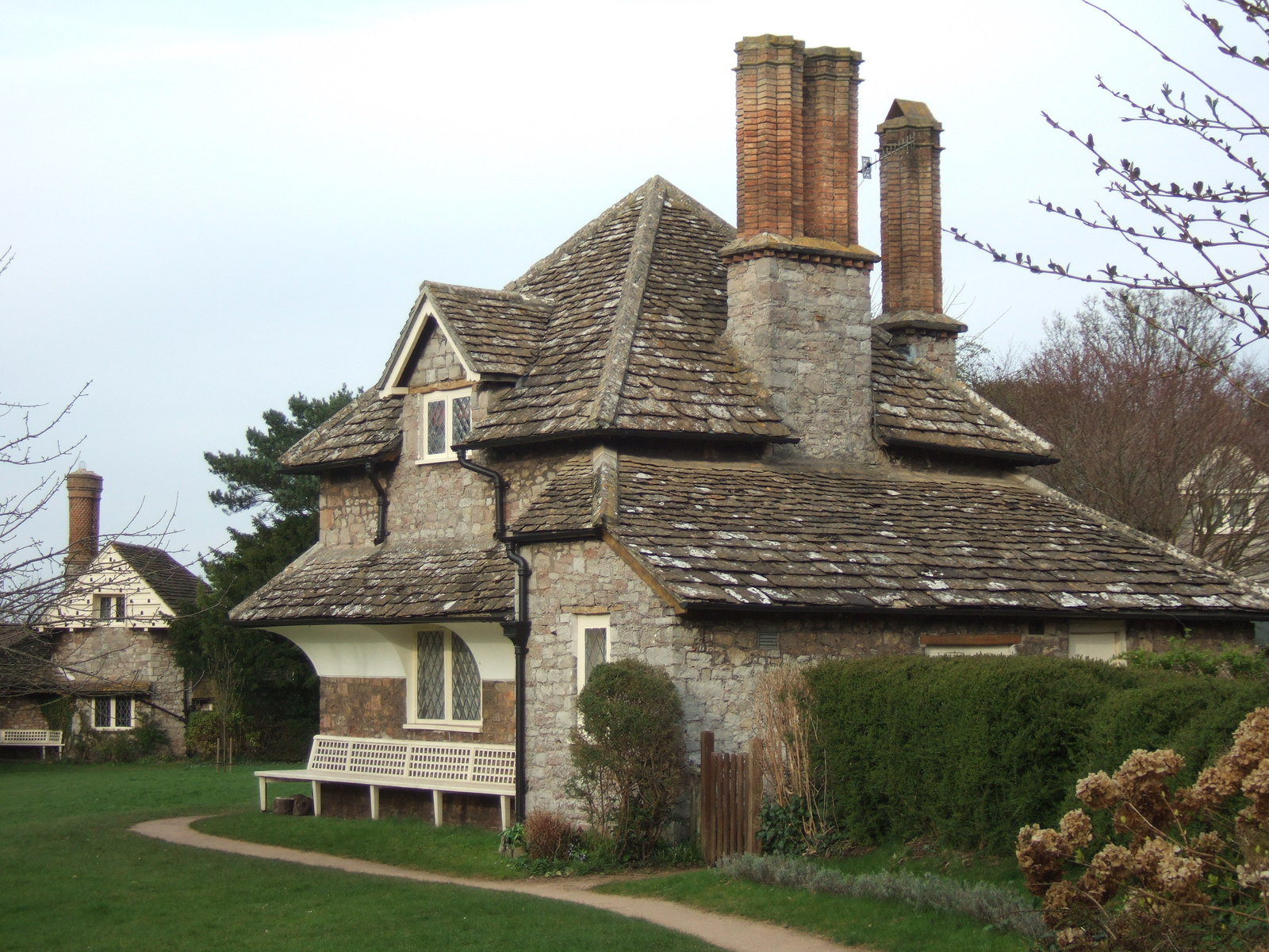 Blaise Hamlet - the ninth and second cottages